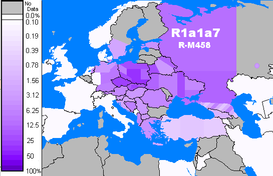 Map rendered in psuedocolors for R-M458 frequencies, data derived from Underhill et al. Positions of boundaries (NE,NW,C,etc) are approximate. Variation of N and S. Caucasus region of Russia rendered as stripes showing range of variation in the region.